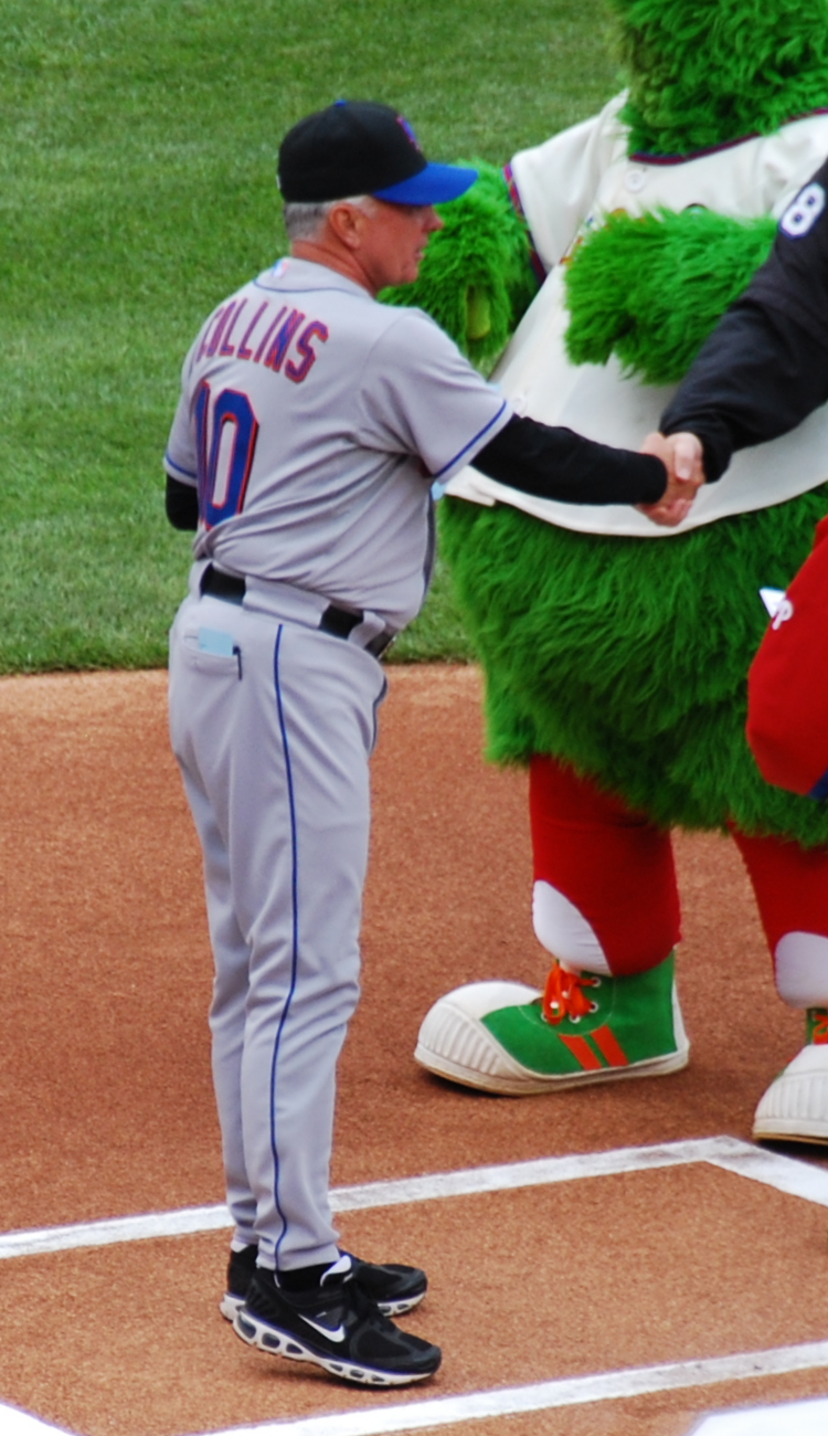 Terry Collins